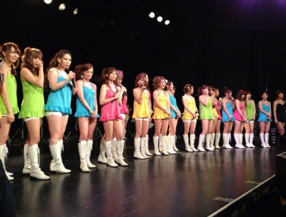 2013/03/31 Osaka - Bigcat